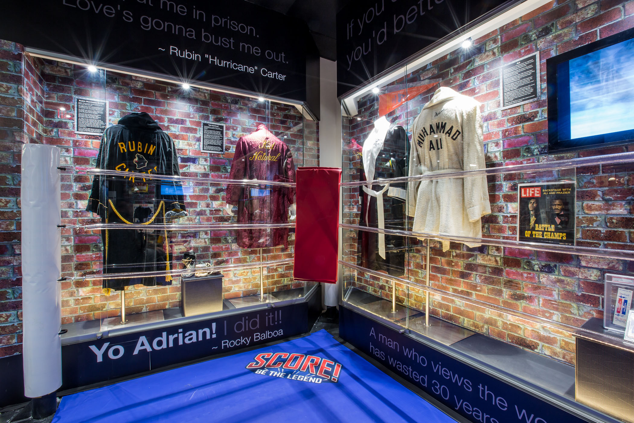 Hollywood and Ali exhibits at Boxing Hall of Fame, Luxor Hotel, Las Vegas, Nevada